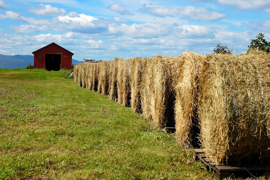 Farm in Kamouraska, Quebec